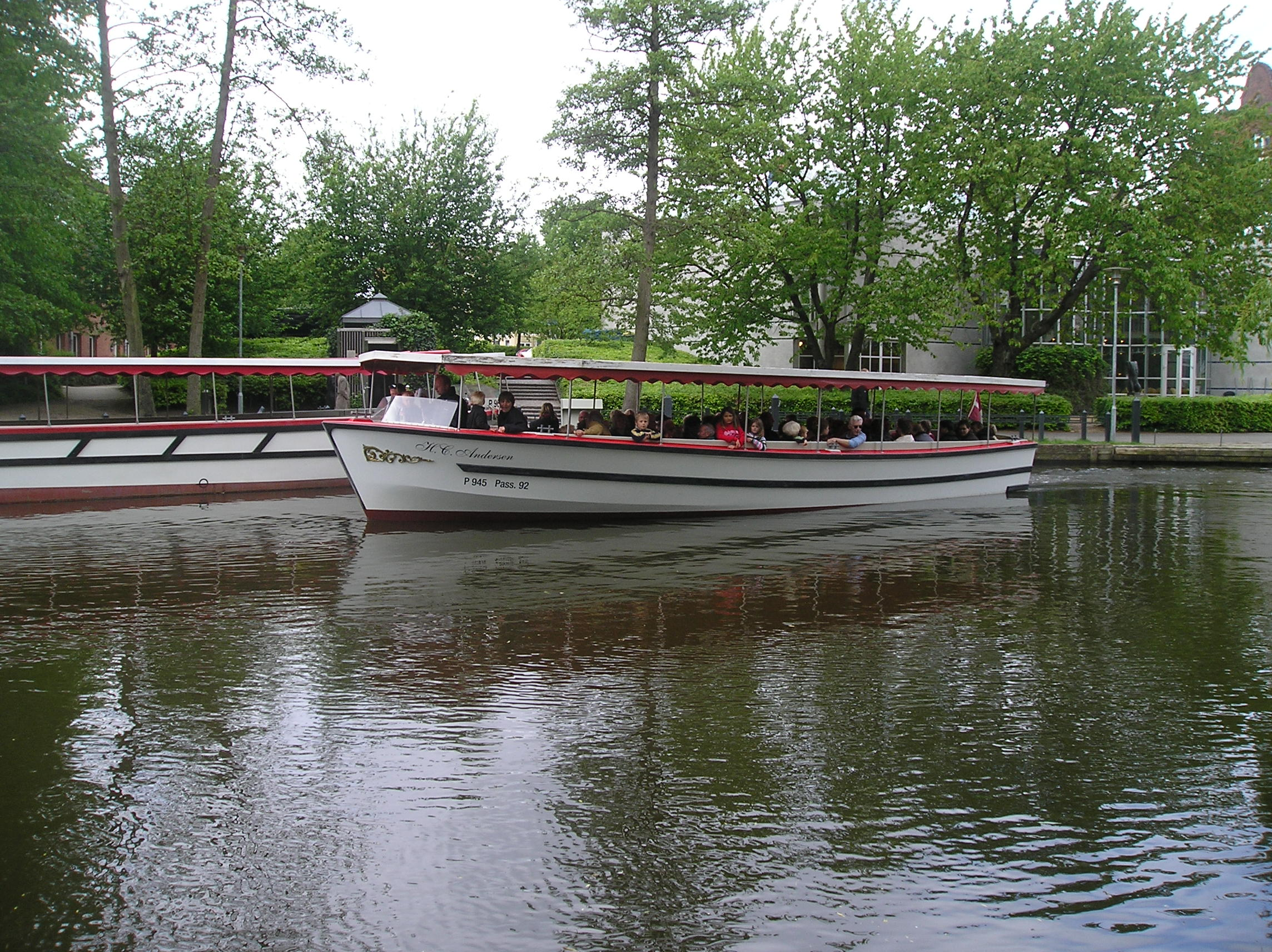 Wikimedian meetup in Denmark. The wikipedians sailing with Odense Aafart.